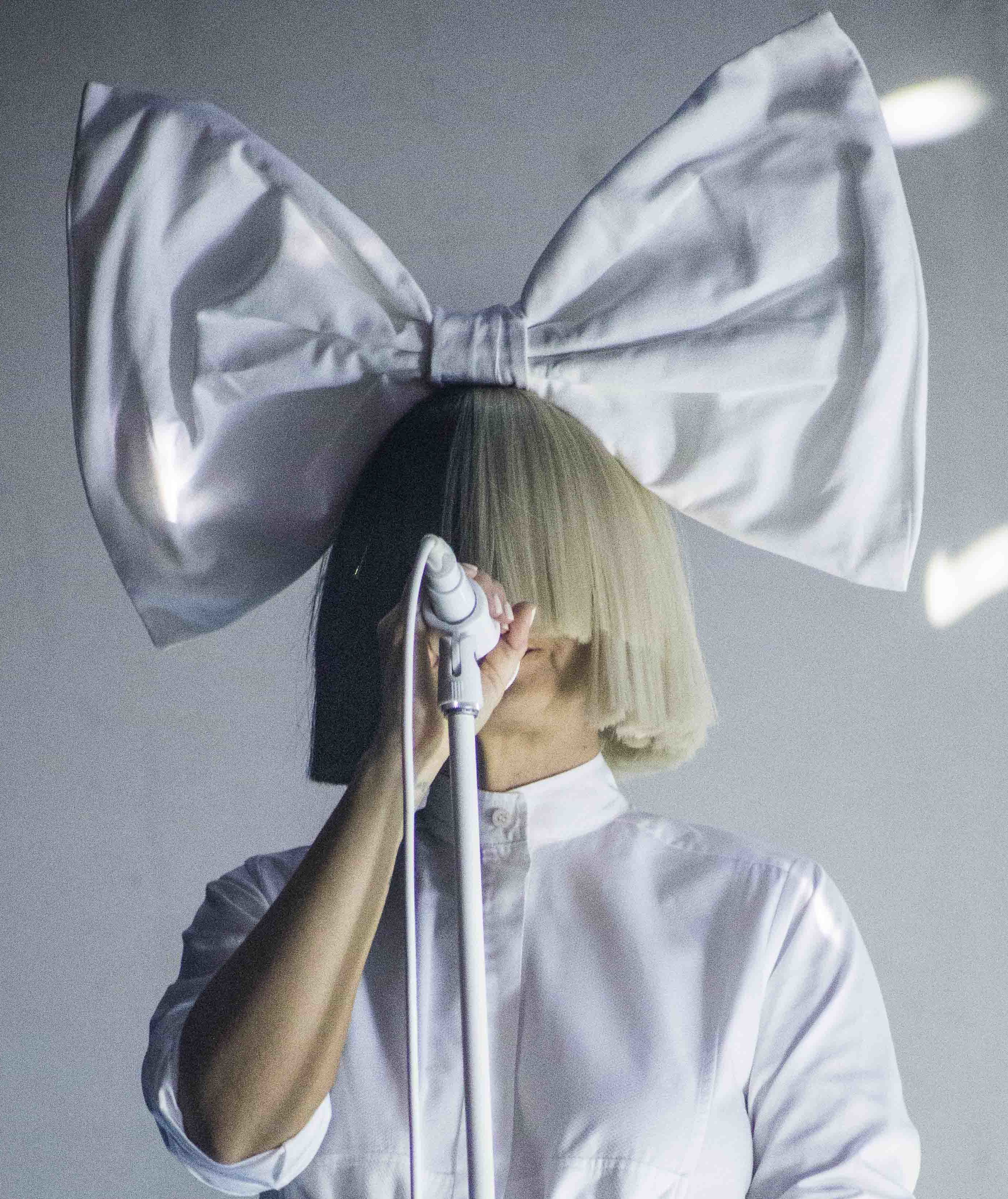 Sia live in Boston in 2016.